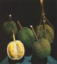 durian dari kecamatan tigalingga